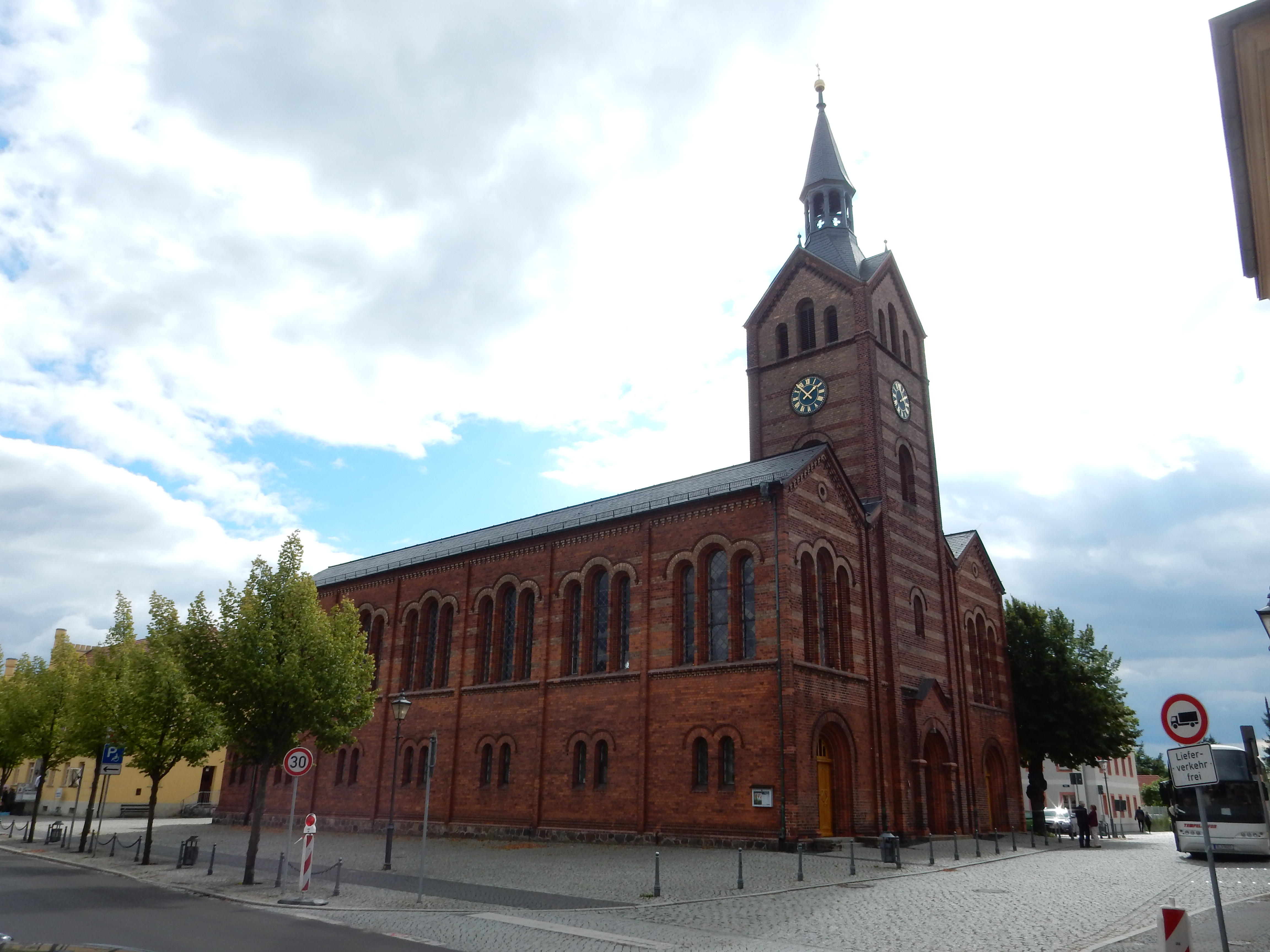 Curch in Peitz, Brandenburg, by Friedrich August Stueler